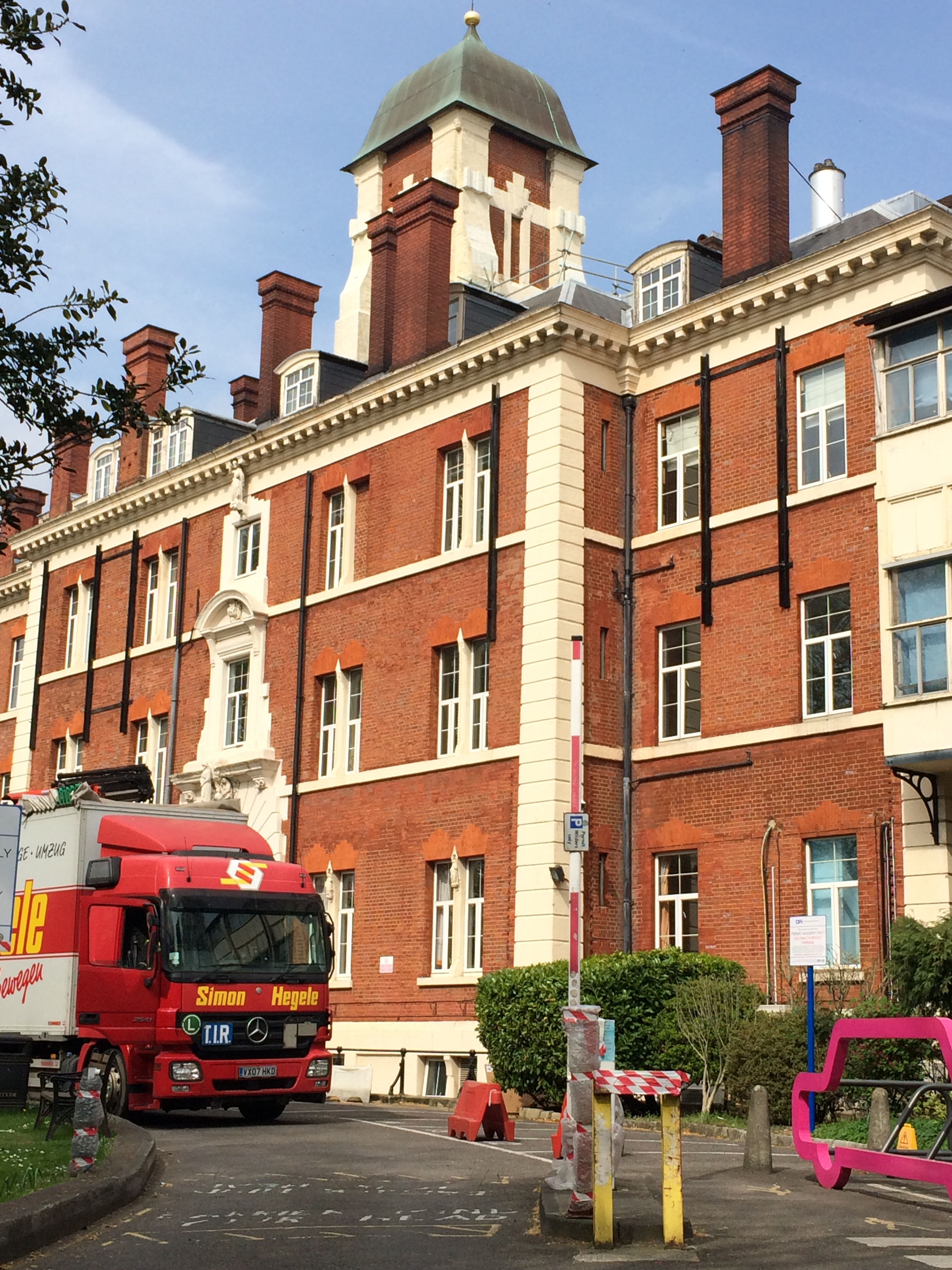 On closure day